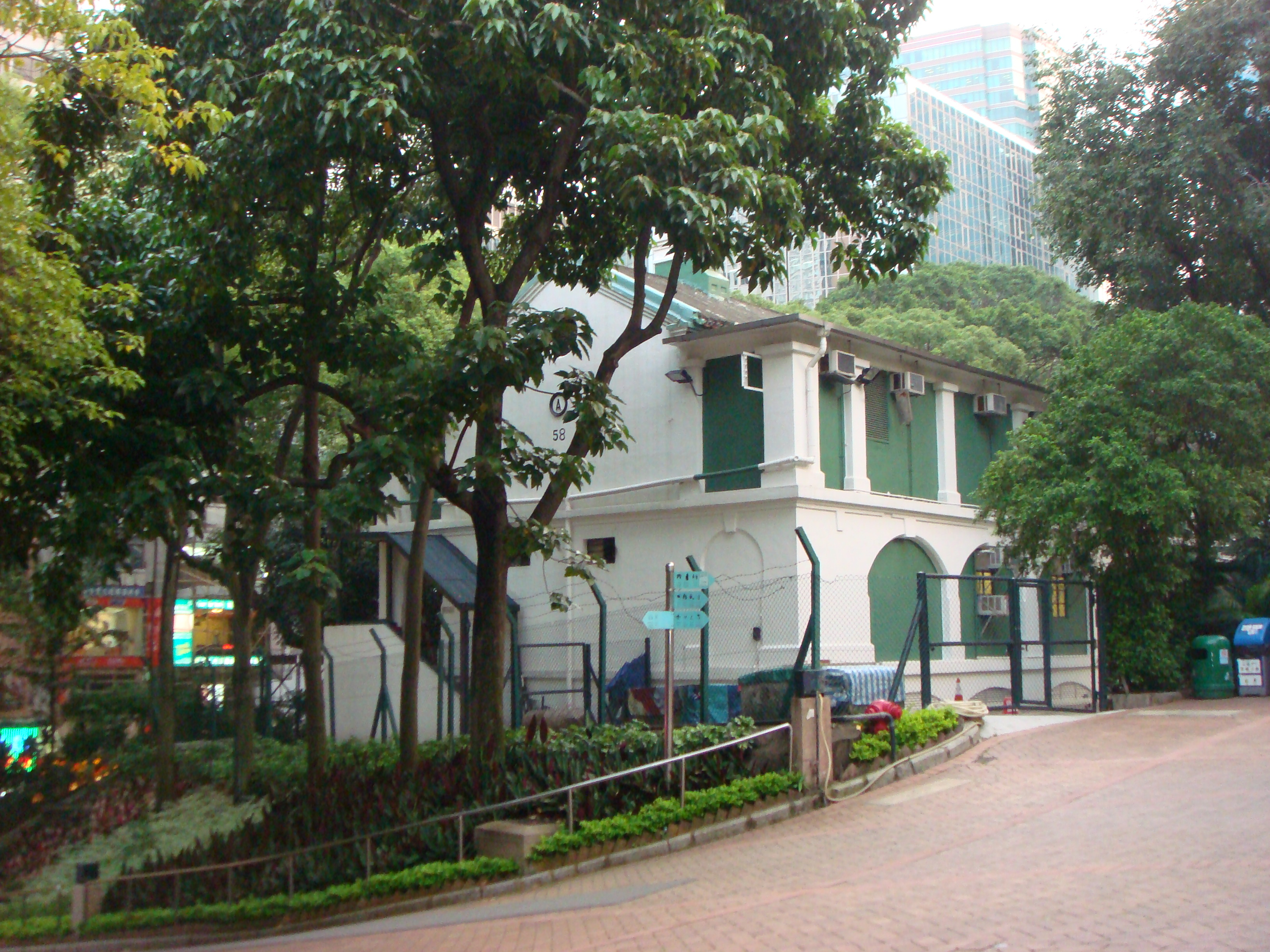 Block 58 of the former Whitfield Barracks, in Kowloon Park, Hong Kong, now a Grade III historic building